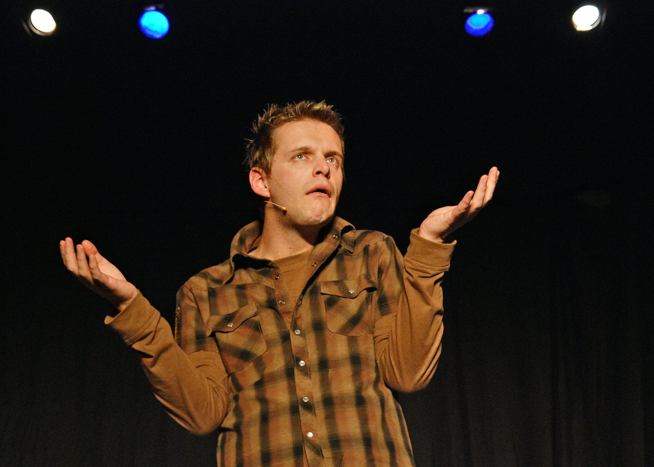 Florian Schroeder during a cabaret show in Lörrach